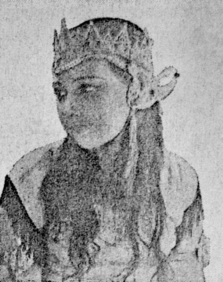 Indonesian actress Elly Djoenara in a promotional still for Tjioeng Wanara